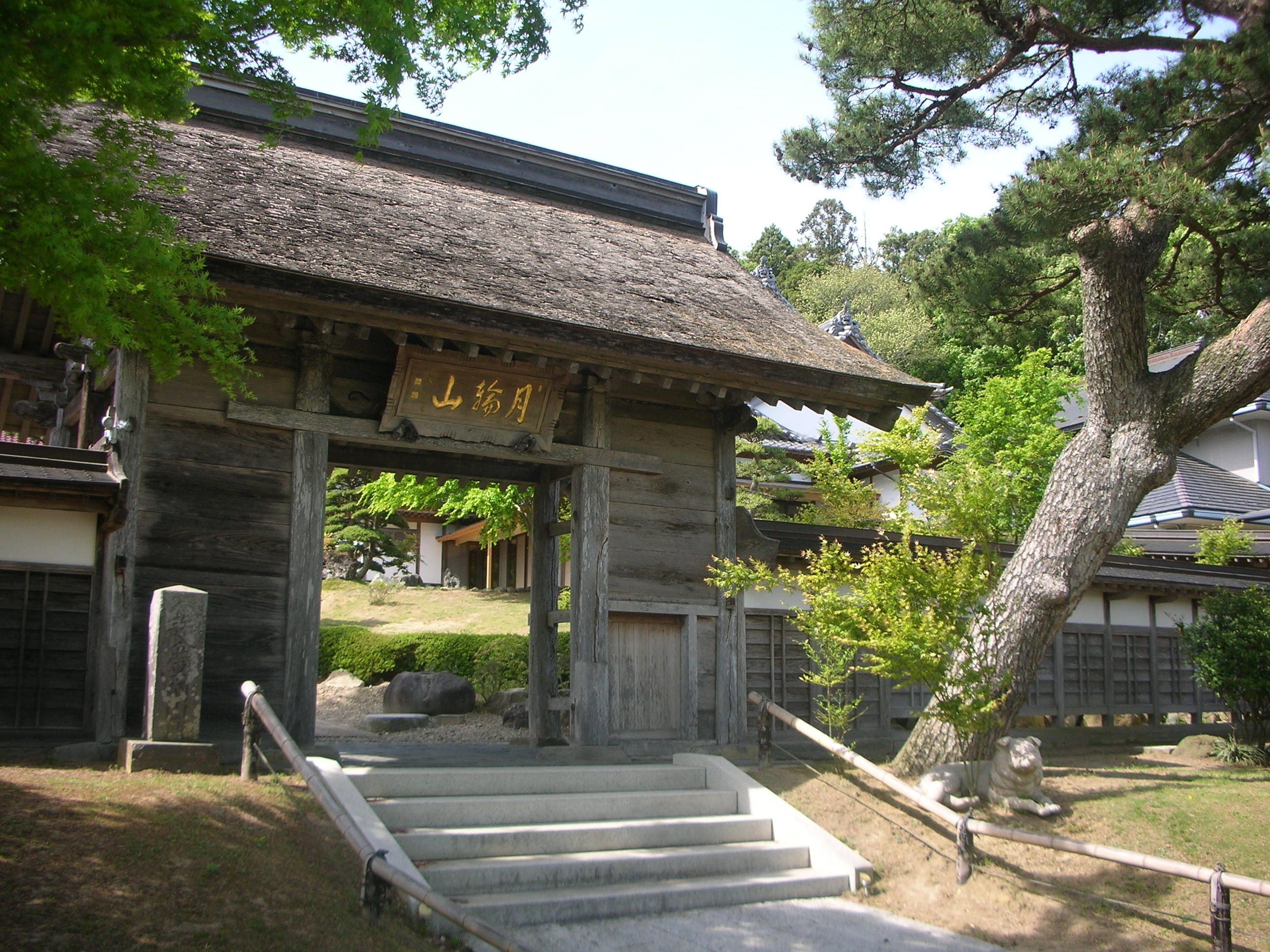 Sanmon (temple gate) at the Korinji temple in Tome City, Miyagi Prefecture, Japan